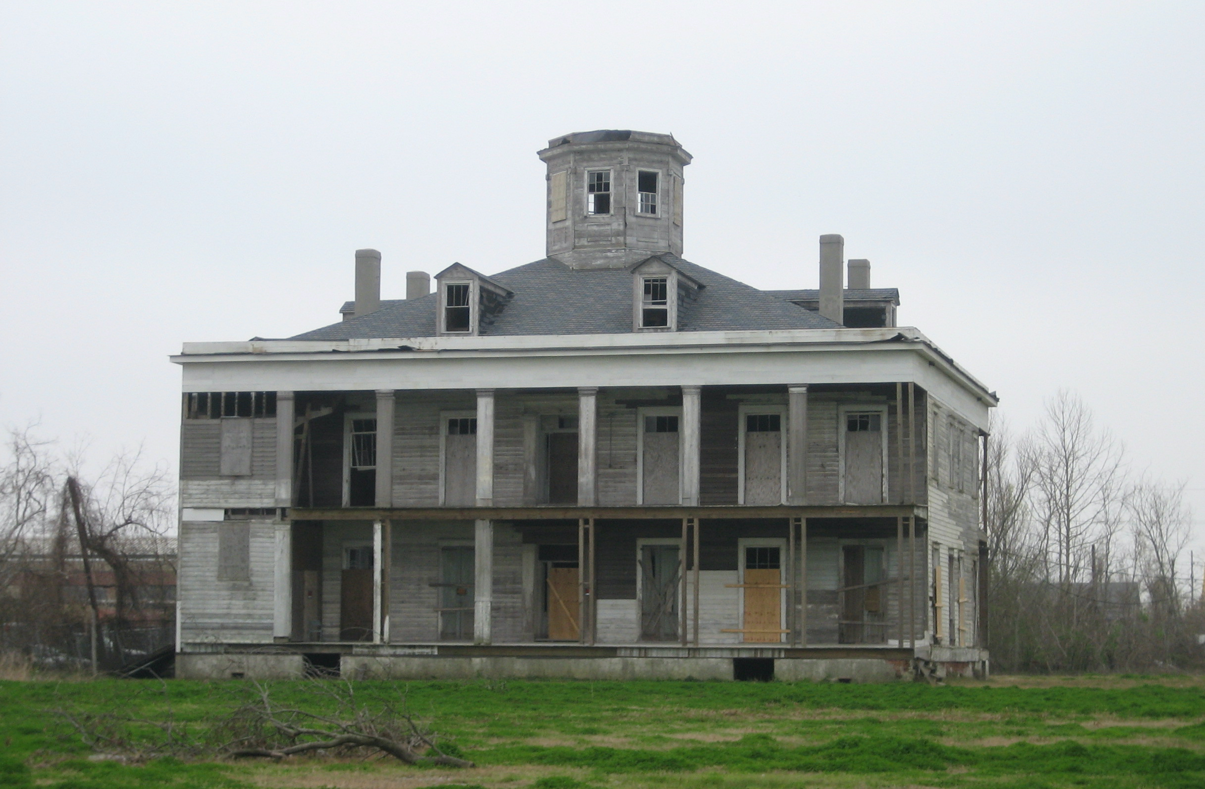 LeBeau Plantation, Arabi, Louisiana. The 1854 plantation house, Photographed by Infrogmation of New Orleans in 2006. It was a hotel and gambling establishment in the mid 20th century, destroyed by arson in 2013. The property was owned by Joseph Meraux and in his will was left to Arlene Soper Meraux after a court battle to prove a common law marriage. After her death, months prior to Hurricane Katrina, she left this plantation and several other properties to a commission made of several St. Bernard Parish politicians. Before the storm and later arson, a committee had planned on making large and pricey renovations to Le Beau hoping to bring more tourism into the area.